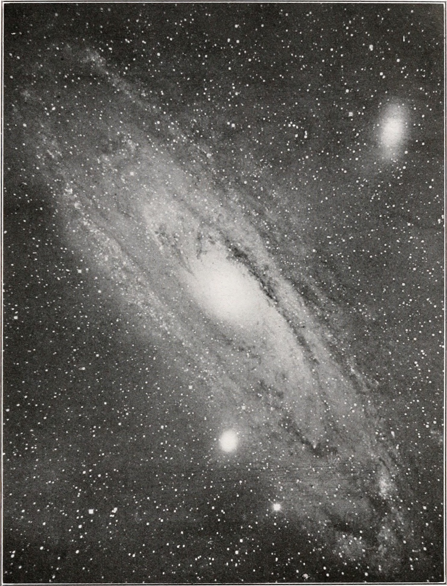 Title: Carnegie Institution of Washington publication Year: 1902- (1900s) Authors: Carnegie Institution of Washington Subjects: Publisher: Washington, Carnegie Institution of Washington Text Appearing Before Image: 47 Text Appearing After Image: FIG. 36.—The Great Nebula in Andromeda. We are thus prepared to appreciate the intimate relationship which unites all phases of the Observa- tory's work and determines its plan of operation. But how shall we enter the vast sphere of the sidereal world, where hundreds of millions of objects, exhibiting phenomena of inconceivable magnitude and infinite variety, vie with one an